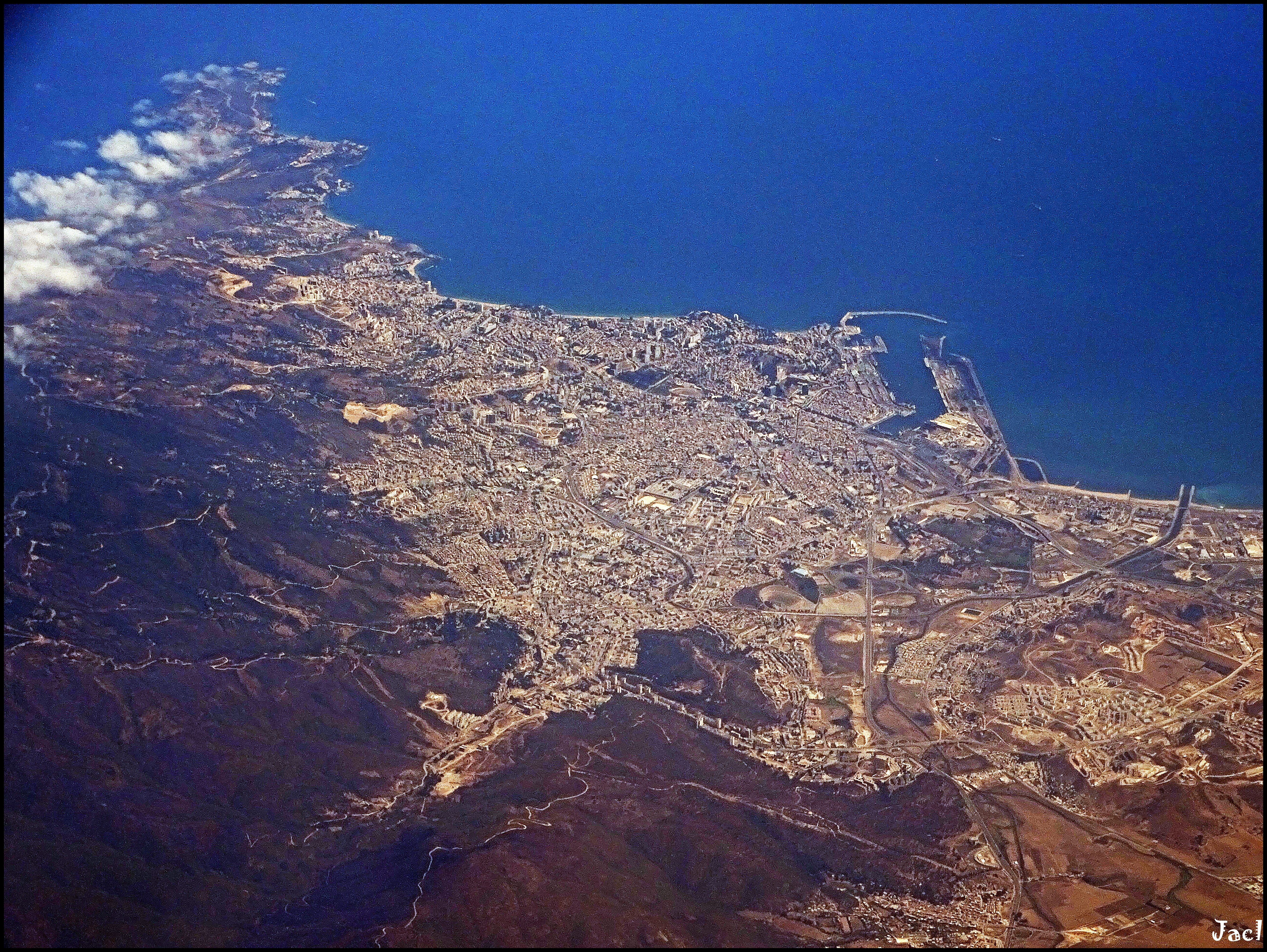 Annaba from the plane (Flight Malta-Madrid)